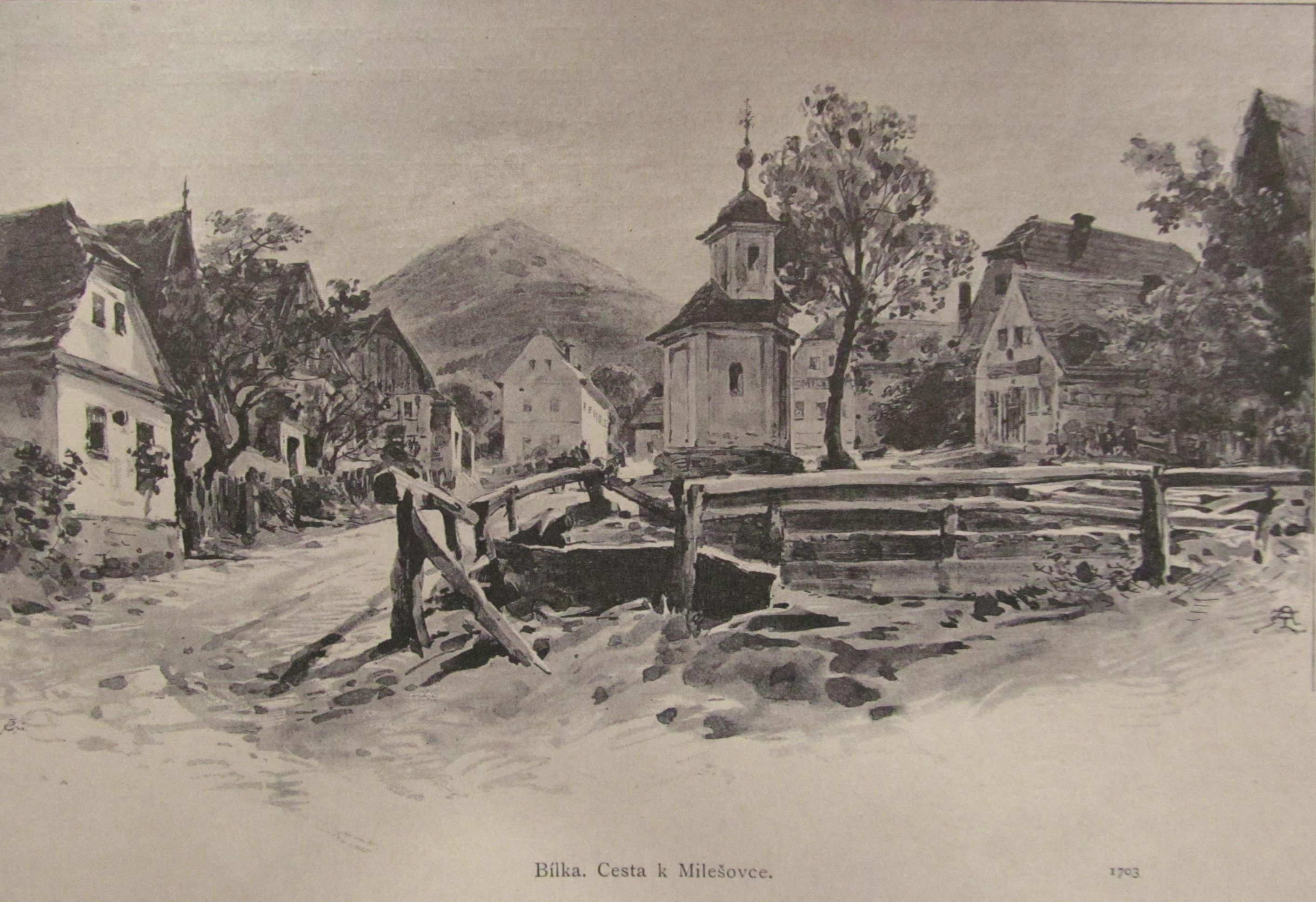 Village square in Bílka in 1892